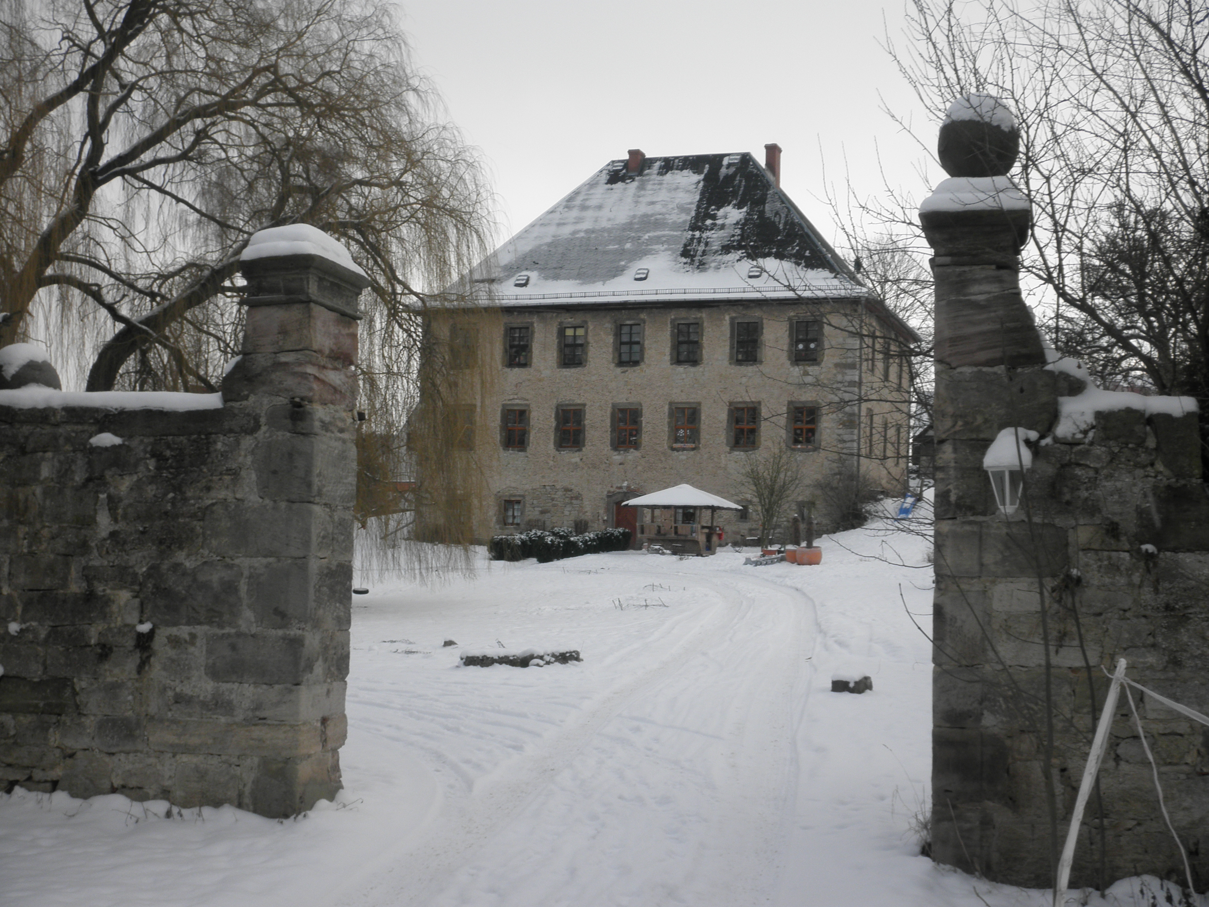 Castle in Thangelstedt in Thuringia